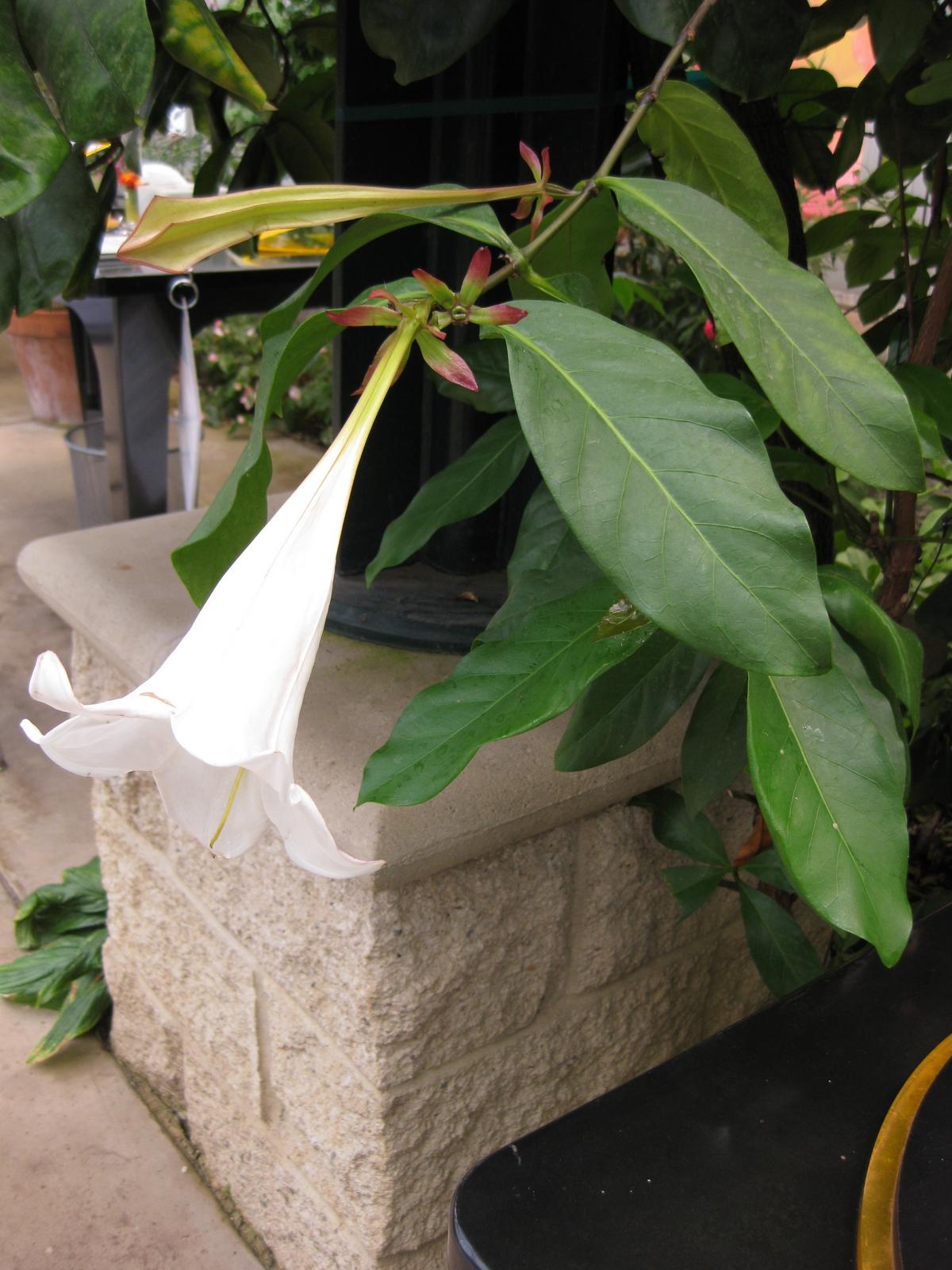 Photographed at Huntington Gardens (Los Angeles) in June